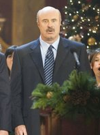 Cropped image from this file - President and Mrs. Bush sing "Hark, the Herald Angels Sing!" along with Dr. Phil McGraw, his wife Robin, left, and Carrie Underwood, right, during the 24th Annual Christmas in Washington at the National Building Museum in downtown Washington D.C. White House photo by Shealah Craighead